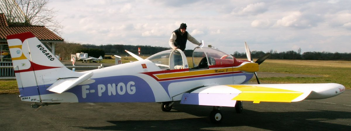 Midour 2 F-PNOG; Registration: F-PNOG; The ACBA Midour is a specialised glider tug aircraft designed and built by the French ACBA aero-club. (ACBA = Aéro Club du Bas Armagnac)